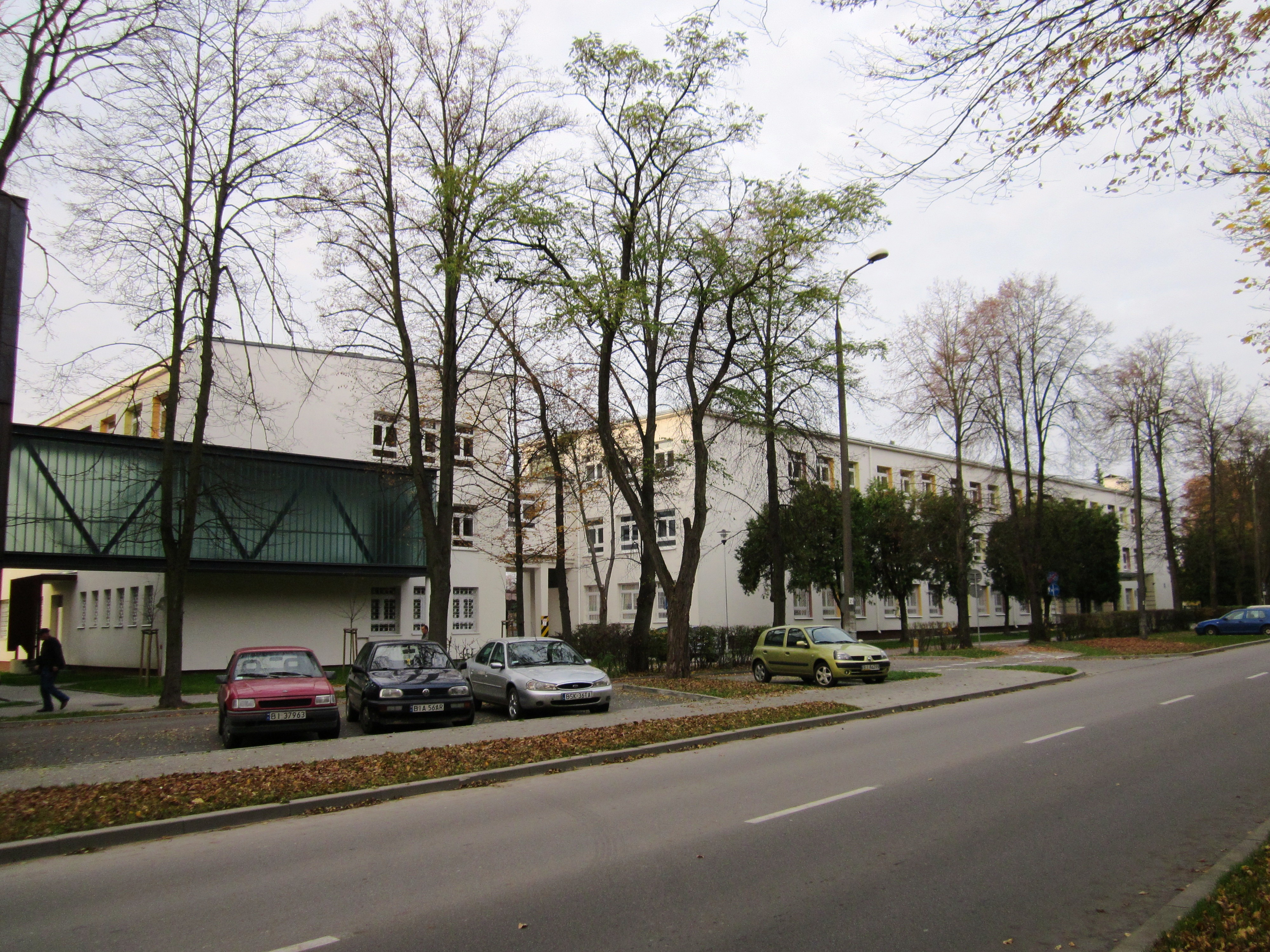 University of Białystok, 20 Świerkowa street. Faculty of Pedagogy and Psychology